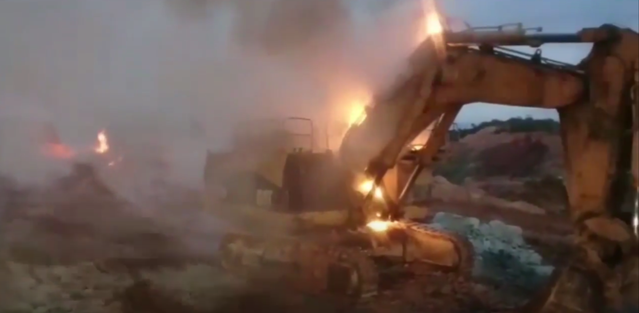 Striking goldminers in Suriname - Brokopondo